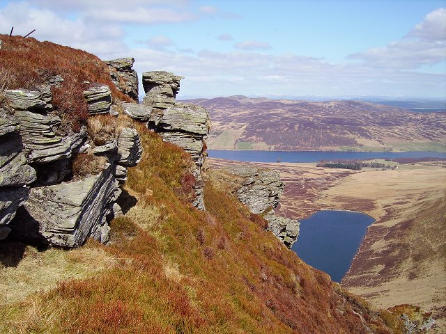 Creag Grianain A pinnacle just below the summit. There is not much more rock than this. It's very steep, but most land is covered in blaeberry (Vaccinium myrtillus) and heather (Calluna vulgaris). Loch a Mhuillin and Loch Freuchie below.